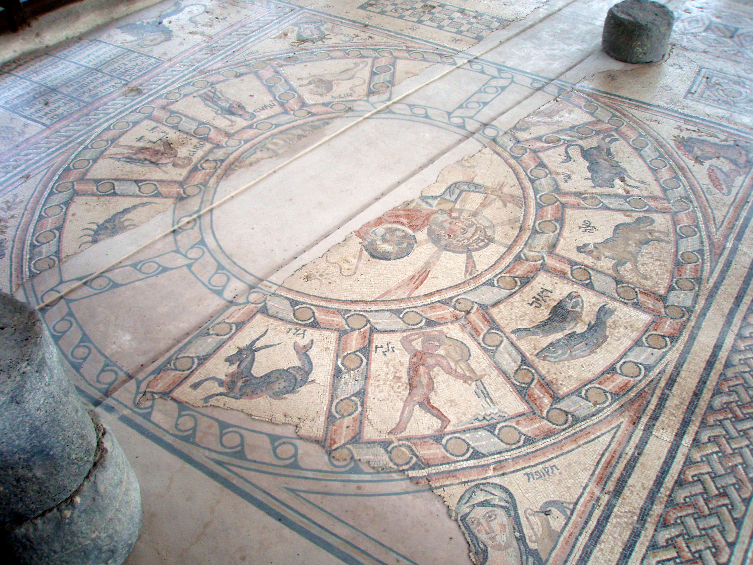 Synagogue in Hamat Tiberias, Israel.